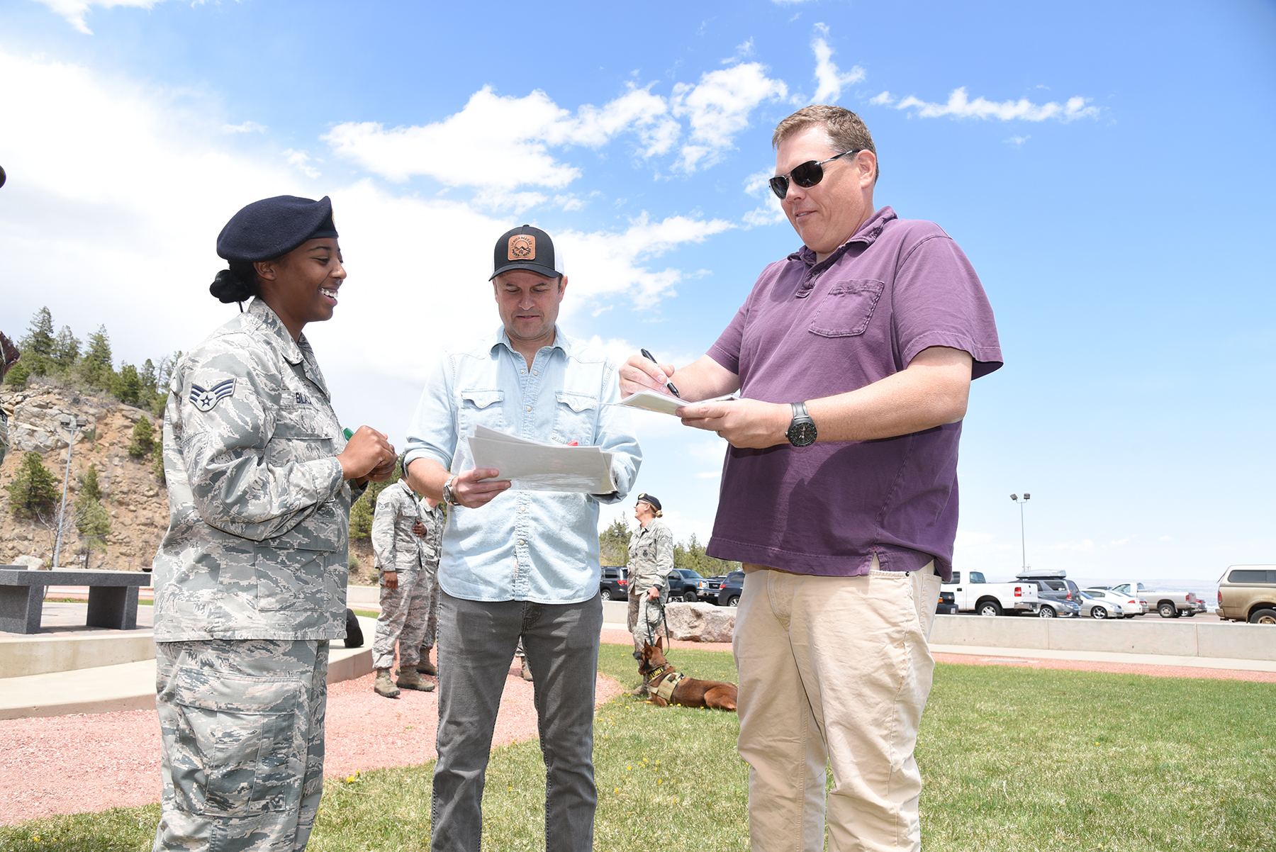 CHEYENNE MOUNTAIN AIR FORCE STATION, Colo. – Kevin Heffernan (right) and Steve Lemme, members of the comedy troupe Broken Lizard and stars of the film “Super Troopers”, sign an autograph for Senior Airman Delmekia Black, 721st Security Forces Squadron during a visit to Cheyenne Mountain Air Force Station on May 6, 2016. Lemme and Heffernan visited and toured the facility, and signed autographs for CMAFS Airmen. The visit was part of the ongoing CMAFS 50th Anniversary celebration.